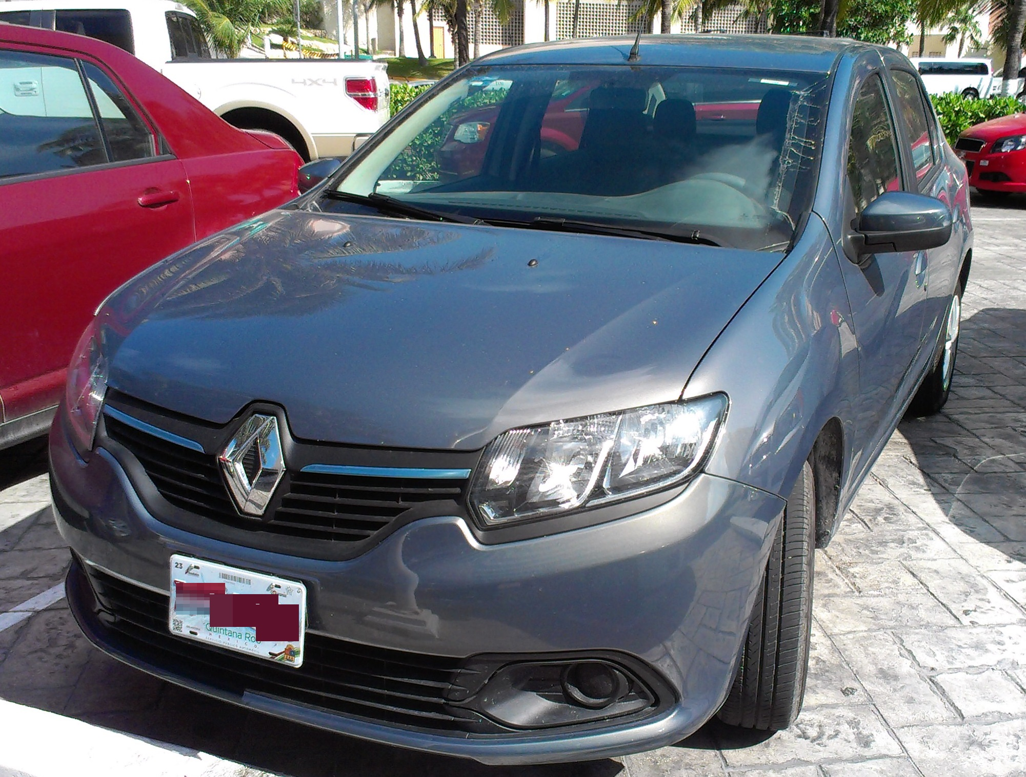 2014-present Renault Logan photographed in Cancùn, Quintana Roo, Mexico.